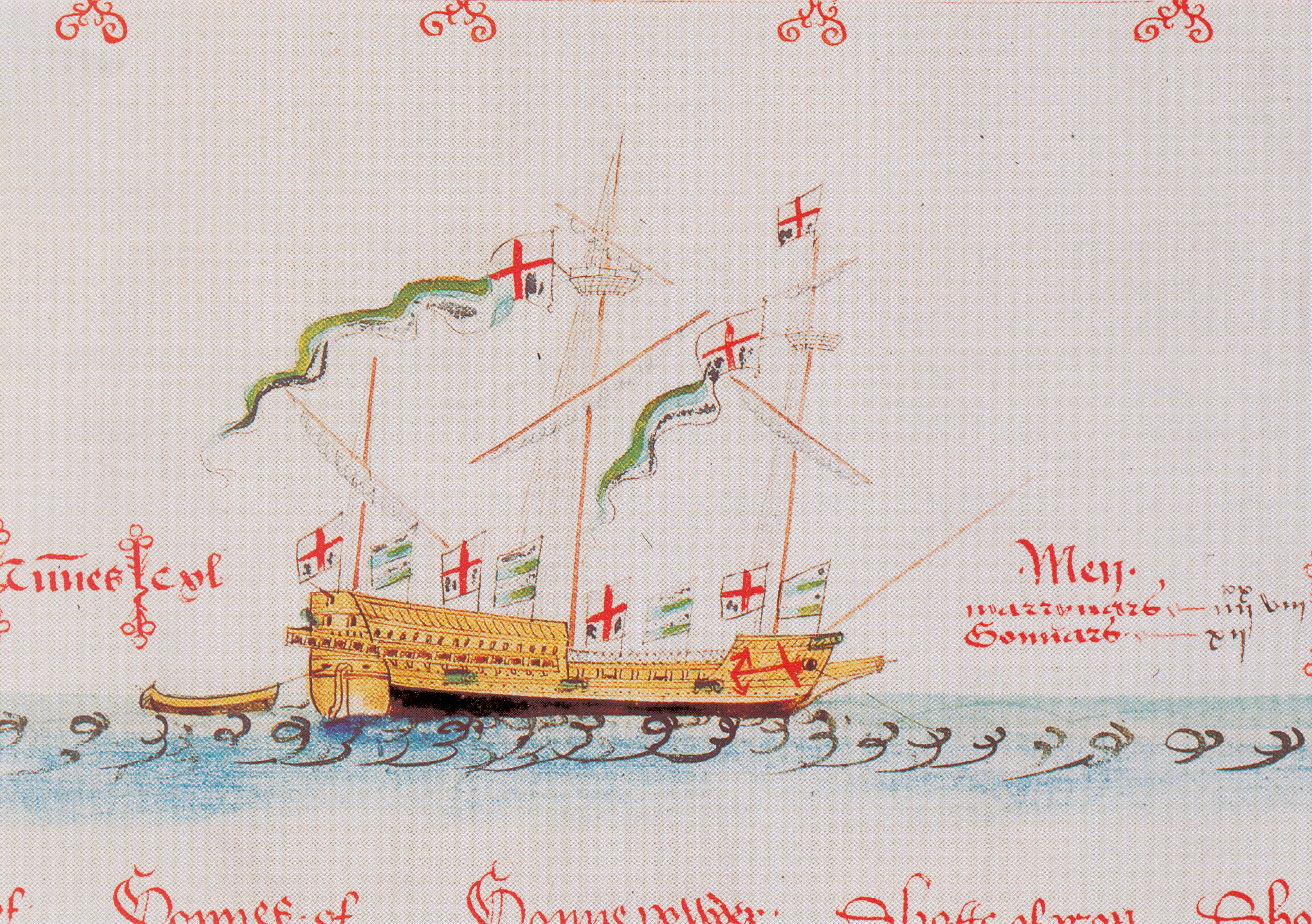 Illustration of the galleass Lion. Notification about possible deletion Cathsuth (talk) 16:18, 9 February 2017 (UTC)